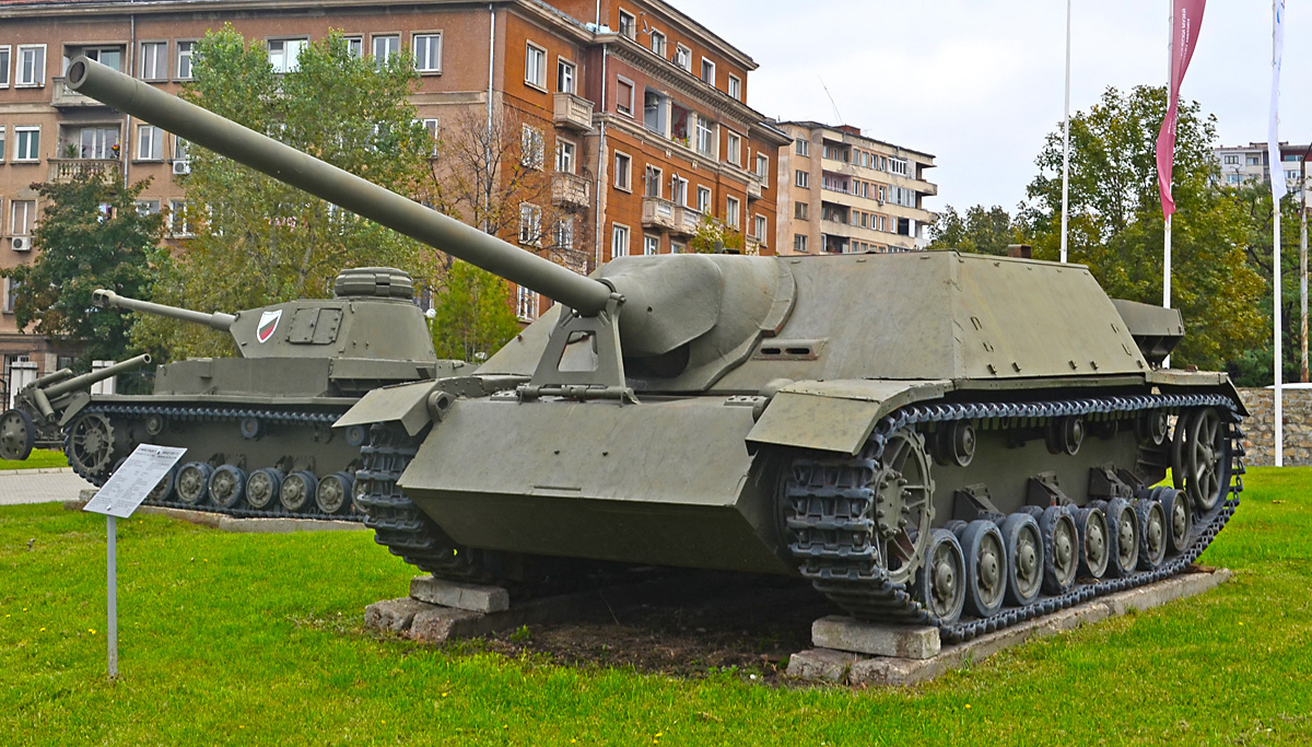 Self-propelled German gun Jagdpanzer IV L70 (V)(Sd.Kfz.162/1) in Military Museum - Sofia, Bulgaria